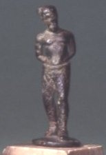 © The Trustees of the British Museum